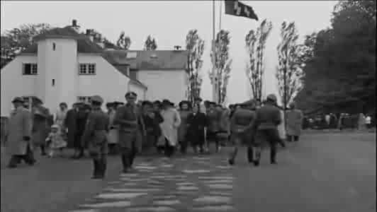 Video still image number 9479 of 14239, at 06:17. See also File: Waffen-SS memorial and raw footage (Denmark, 1944).ogv